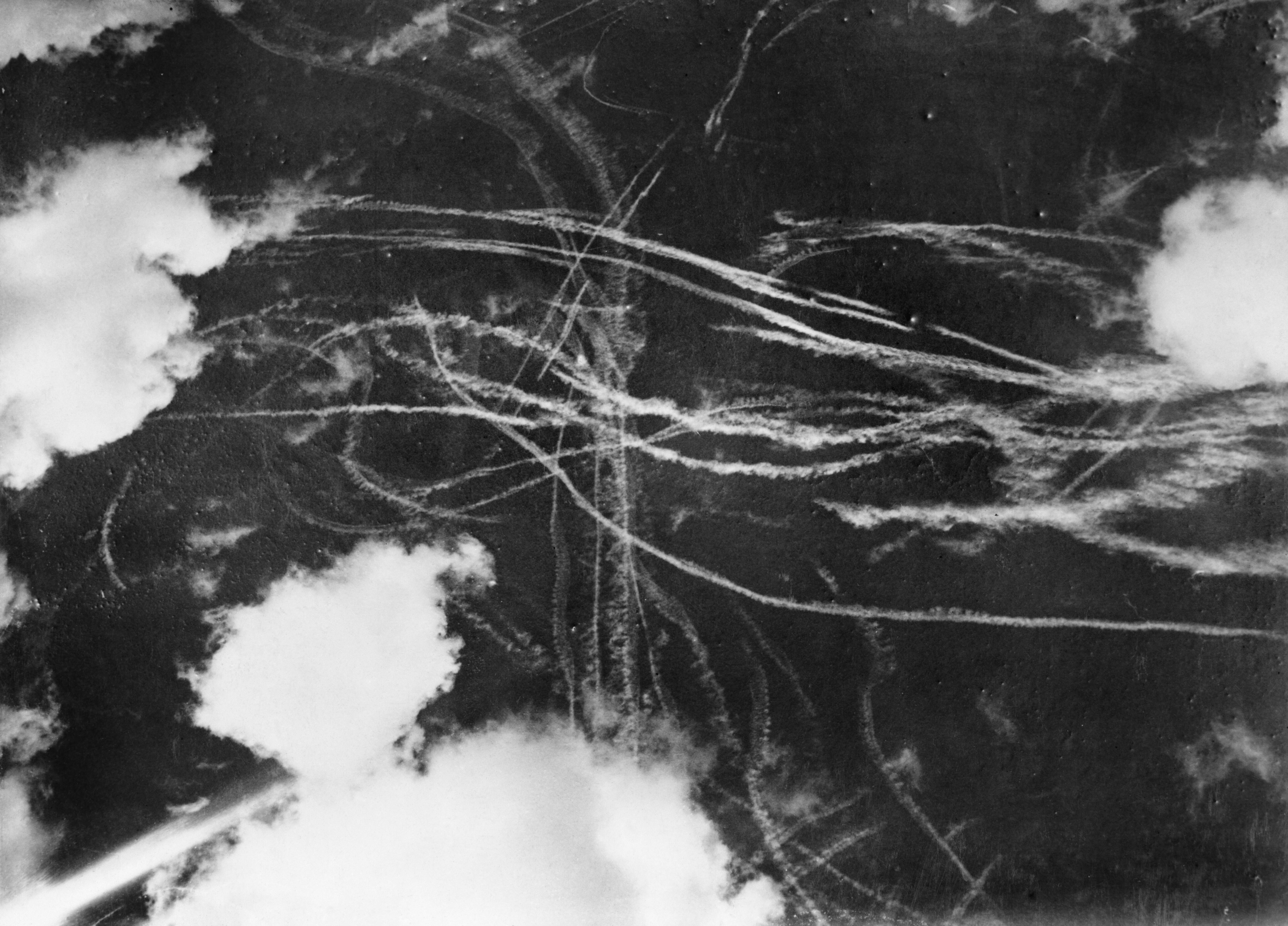 IWM caption : THE BATTLE OF BRITAIN 1940. Pattern of condensation trails left by British and German aircraft after a dogfight.